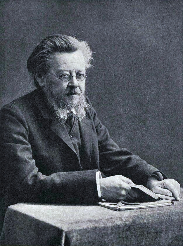 Ivan Luchyckyj, a member of the Third Russian State Duma, 1907-1912